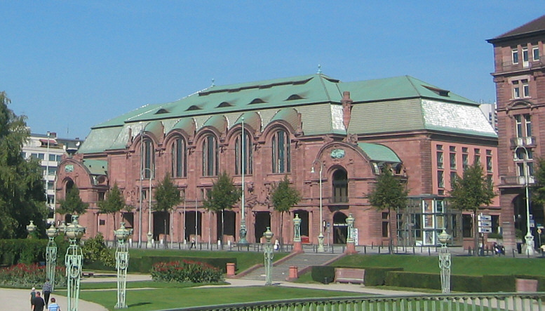 Mannheim, Germany: Rosengarten (concert hall and congress centre) at Friedrichsplatz